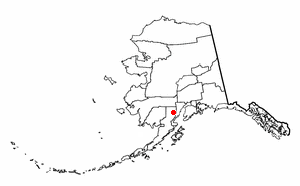 Adapted from Wikipedia's AK borough maps by Seth Ilys.